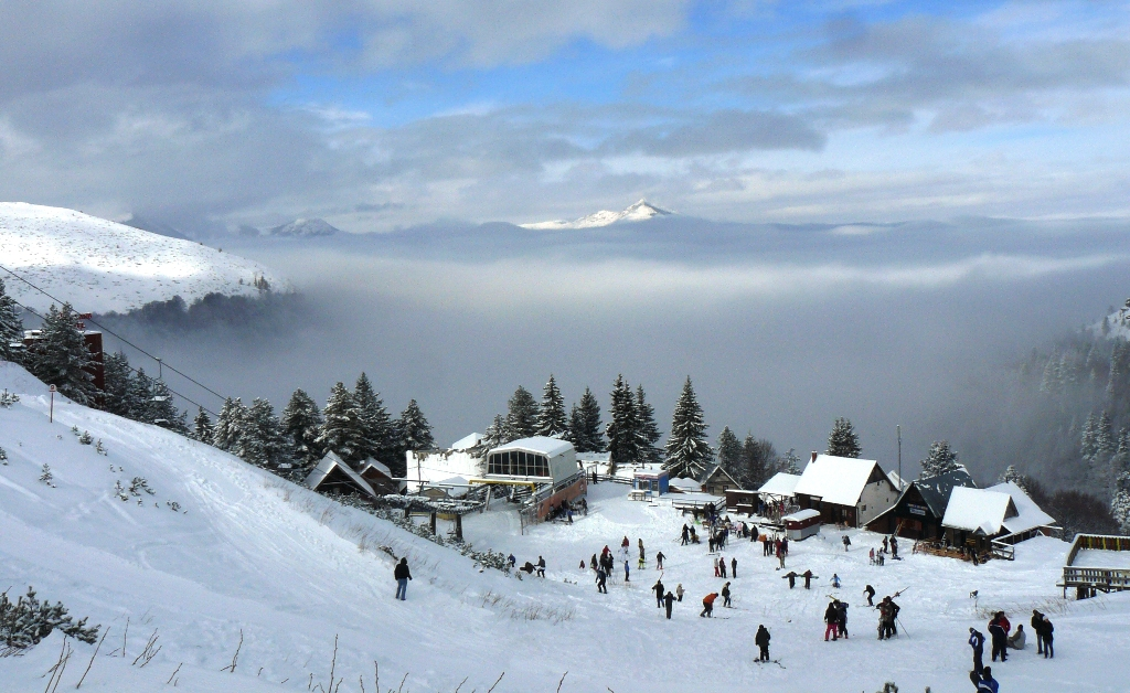 photo from the hill